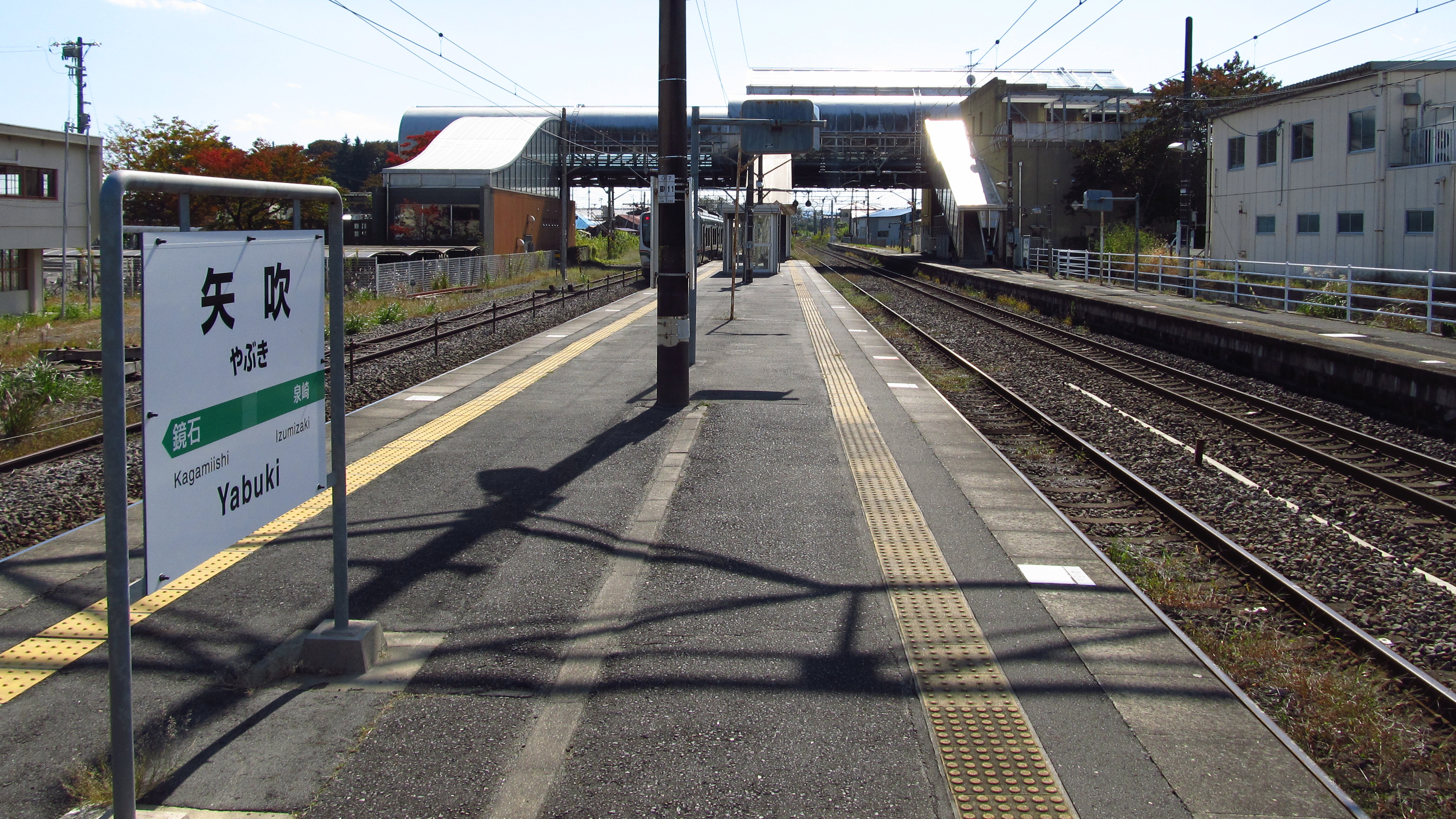 The platforms at Yabuki Station on the Tōhoku Main Line in Yabuki town, Fukushima prefecture, Japan